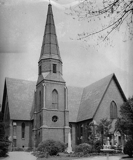 Christ Episcopal Church, North Church Street, Greenville (Greenville County, South Carolina) - cropped